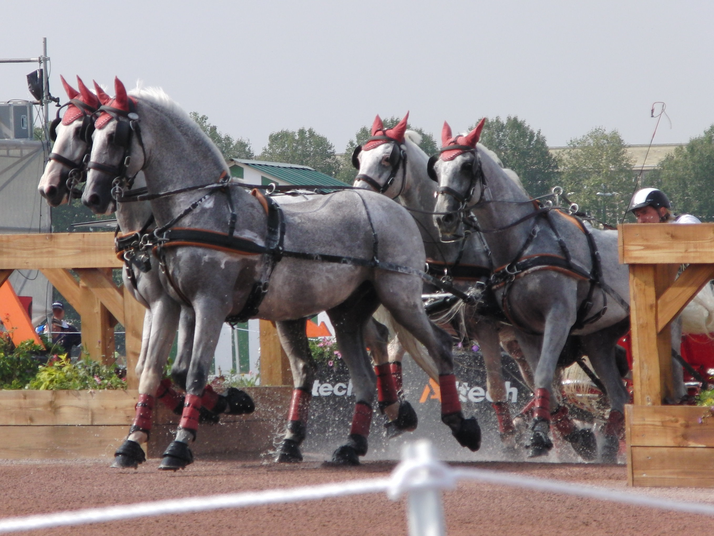 2014 FEI World Equestrian Games - Driving - Marathon - Zoltan Lazar and his Lipizzaner horses for Hungary